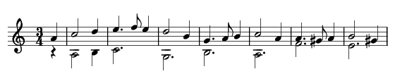 An excerpt from the melody of the traditional "Greensleeves" with a hint of the bass line.